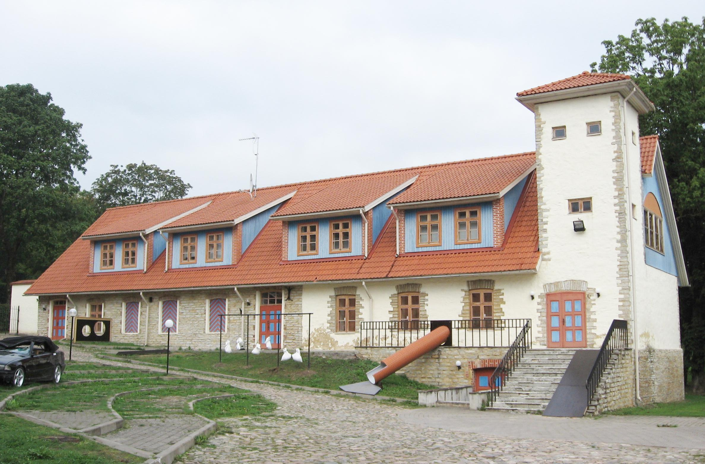 The building behind the court building at Tallinna 3